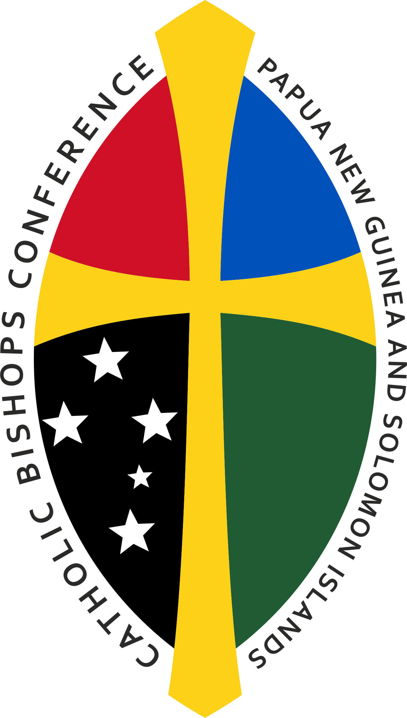 Logo of Catholic Bishops Conference Papua New Guinea and Solomon Islands